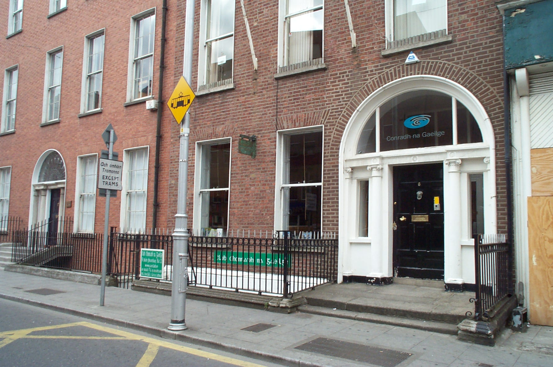 Conradh na Gaeilge (Gaelic League), Dublin